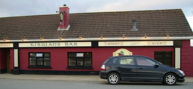 Kirwan's Bar, Kill, Co Waterford One of two bars in Kill. The small village (basically a crossroads) also has one shop, with petrol pumps outside, a takeaway chippy and a church.